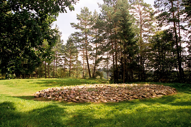 Pagan Sudovian (Yotvingian) cemetery in the area of Suwałki, Poland. The picture shows the biggest kurgan in the area.